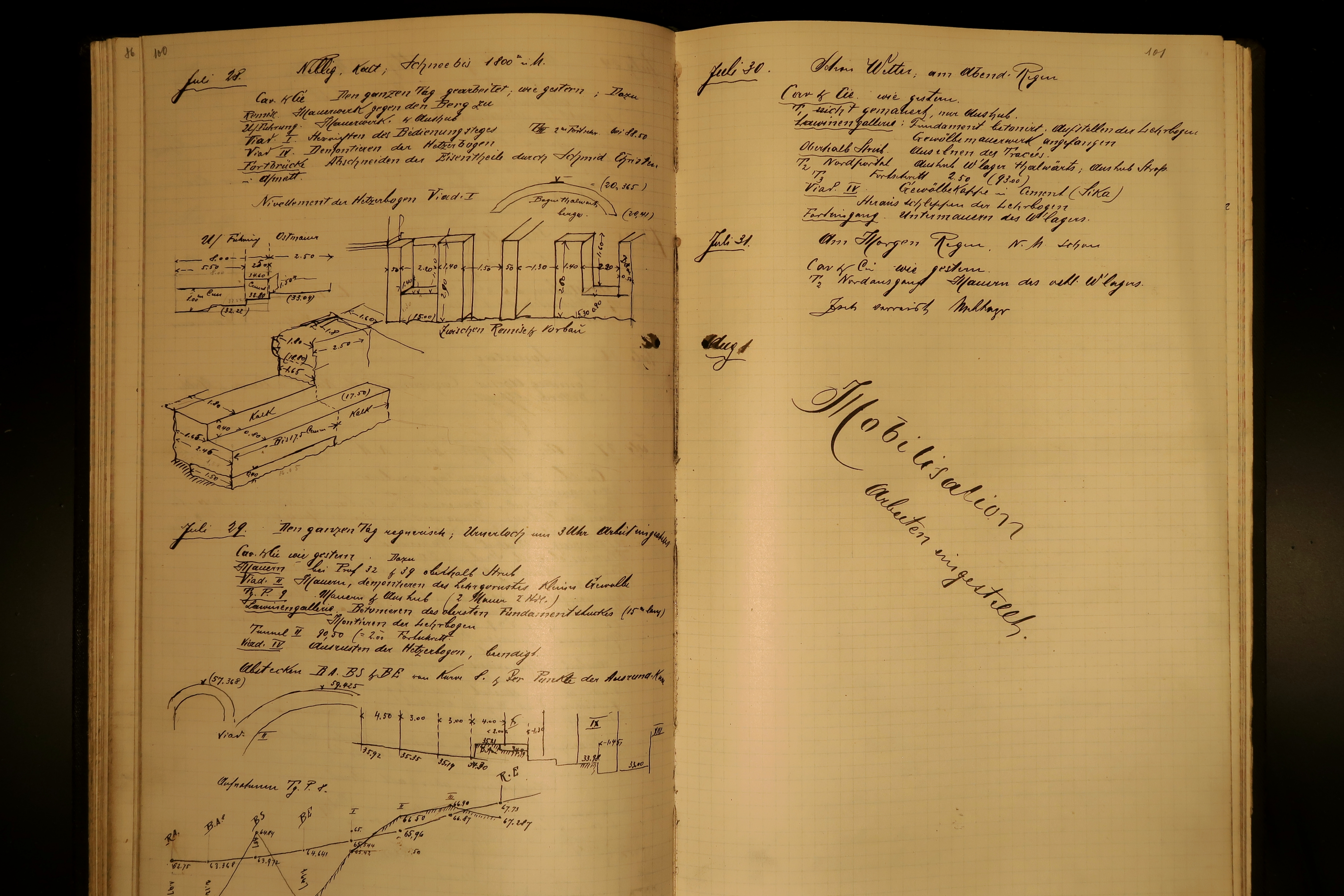 Construction of the Schöllenen Railway from May 23, 1913 to July 12, 1917. The construction book of engineer Richard Zschokke. On August 1, 1914 it's noted: Mobilization, suspension of work (beginning of the First World War). Talmuseum Ursern Andermatt, Switzerland, Jan 5, 2017.